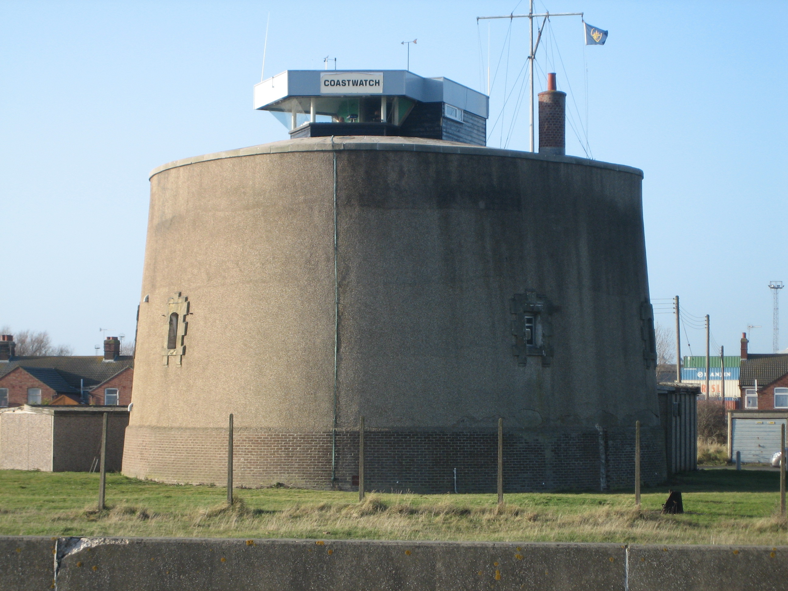 National Coastwatch Institution station at Felixstowe, England in a Martello tower